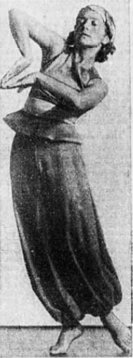 A young white woman standing barefoot in a costume with loose trousers, a sleeveless top with a peplum, and a headscarf. She is posing in a sway, with the backs of her hands facing each other, elbows poking outward.